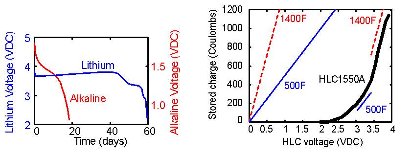 The curve on the left shows the voltage of a TL6930 primary cell, and the curve on the right shows the voltage curve for an HLC.